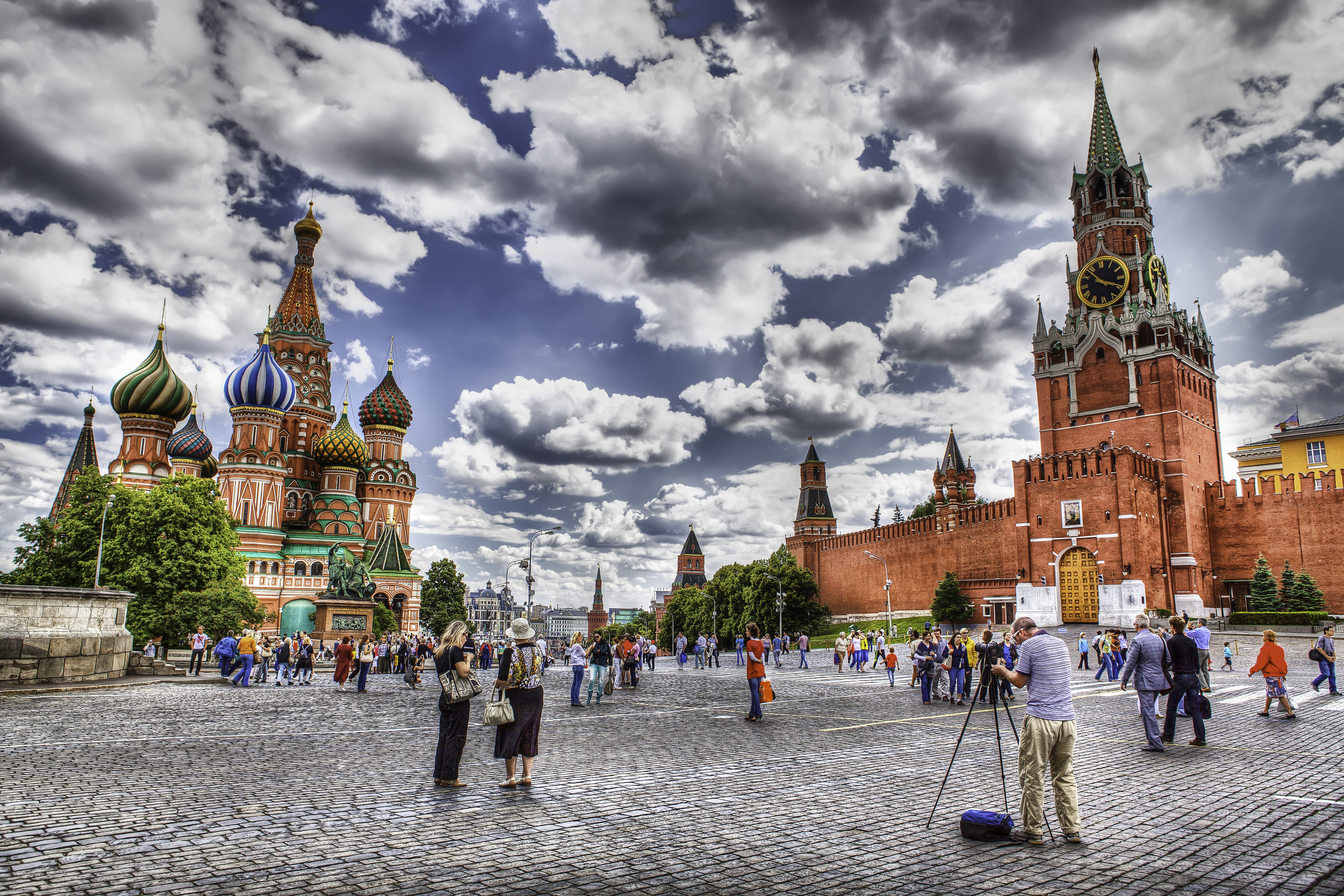 Red square Moscow cityscape